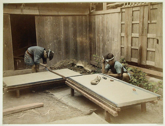 Men Making Tatami Mats, 1860 - ca. 1900. This image is from the Smithsonian Institution's online collection; see catalog information below. It is now in the public domain. Title: [Men making tatami mats], [1860 - ca. 1900]. [graphic]. Contained in: Henry and Nancy Rosin Collection of Early Photography of Japan, 1860 - ca. 1900 Phy. Description: 1 Photographic print : hand coloring ; 19.3 x 25.5 cm. Digital Reference: Image Summary: Two young men creating tatami mats. Possible outdoor setting. Photographer unidentified. Cite as: Henry and Nancy Rosin Collection of Early Photography of Japan. Freer Gallery of Art and Arthur M. Sackler Gallery Archives. Smithsonian Institution, Washington, D.C. Partial purchase and gift of Henry and Nancy Rosin, 1999-2001. General Note: Title devised by Henry and Nancy Rosin. Restrictions: Access is by appointment only, Monday through Thursday 10:00 a.m. to 5:00 p.m. Please contact the Archives to make an appointment. Culture: Portraits Subject-Topical: Photography -- Japan Photography -- 19th century Laborers Artisans -- Japan Weaving -- weaving mats Subject - Geographical: Japan Form / Genre: Photographs Photographic prints Repository Loc: Freer Gallery of Art and Arthur M. Sackler Gallery Archives Smithsonian Institution, Washington, D.C. 20560 Local Number: R251 (Rosin Number) Co-Creator: Rosin, Henry D. Dr. (collector) Rosin, Nancy (collector)